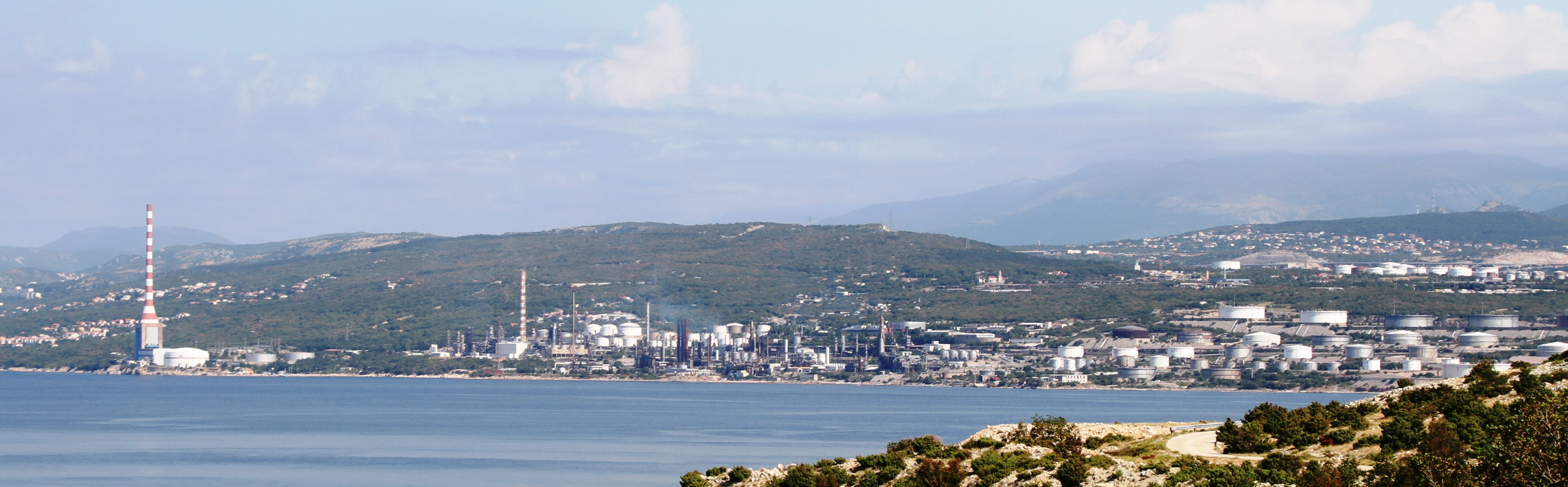 Thermal Power Plant "Rijeka" in the city of Rijeka, Croatia.